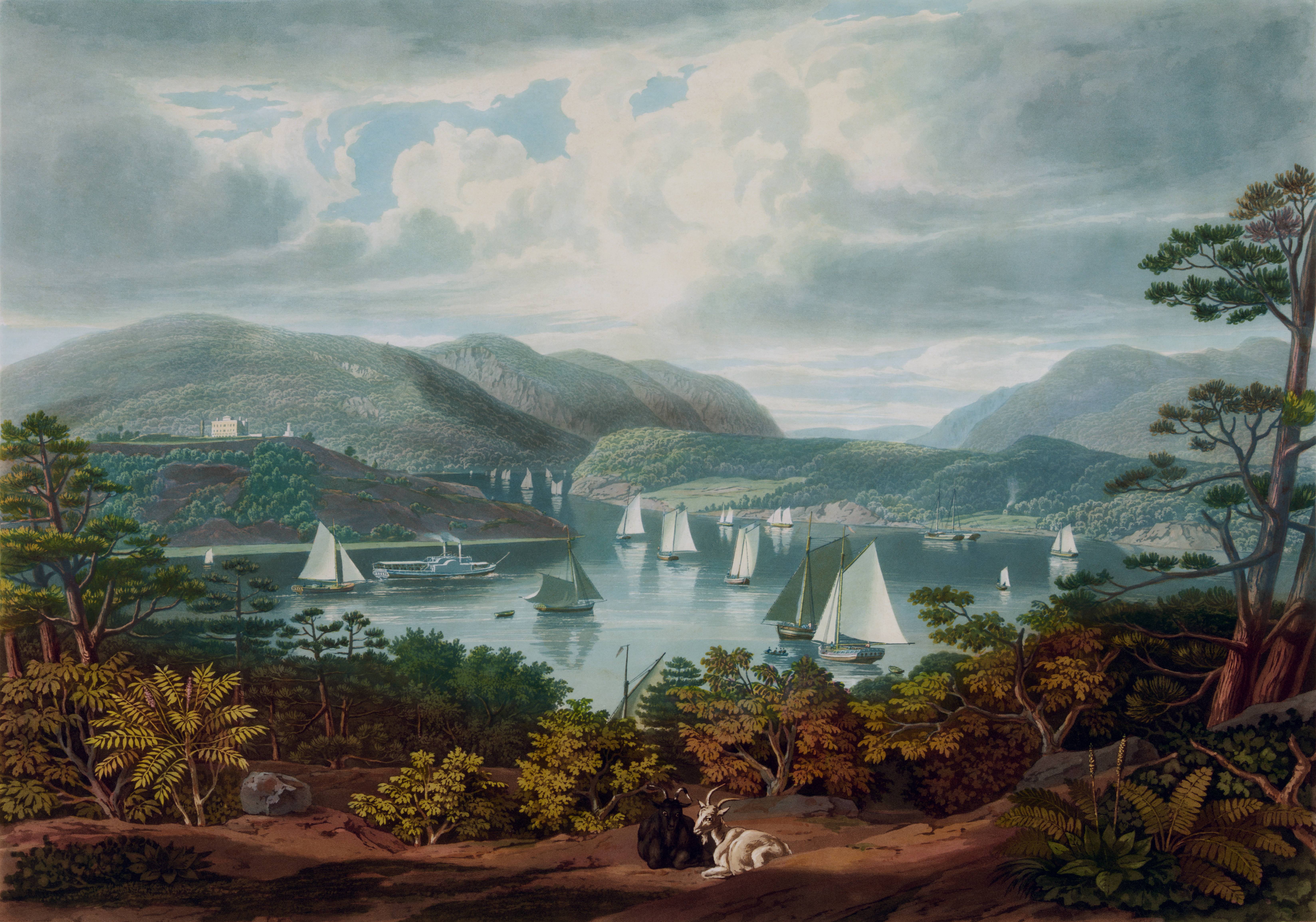 Color aquatint shows the original buildings of the United States Military Academy, with boats on Hudson River, two goats on hill in foreground, mountains in background. Printed by J. & G. Neale, copyright by Parker & Clover, 1831.